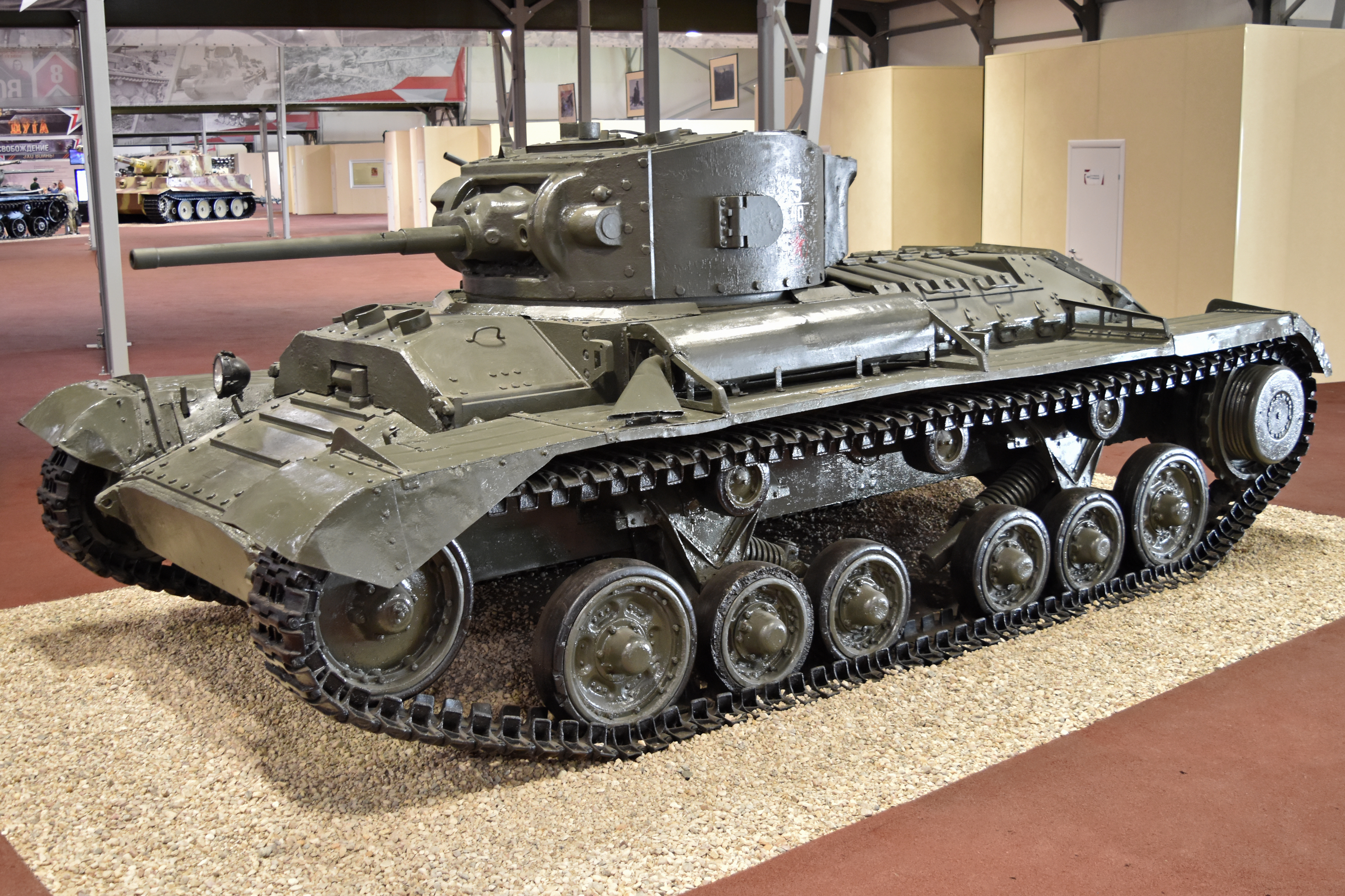 British WW2 era Infantry Tank Official designation:- Tank Infantry MkIII Designer:- Vickers-Armstrong Manufacturer:- Vickers-Armstrong Built:- 1940 to 1944 Total Production:- 8,275 Main Armament:- QF 2-pounder Anti-tank gun The Valentine was a private design by Vickers-Armstrong and therefore did not receive the usual British ‘A’ designation. They were strong and reliable and the chassis was used for several other uses, such as bridgelayers. This is one of the 1,300 British built Valentines which were supplied to the Soviet Union under Lend-Lease agreements, along with almost the entire Canadian production run. In period markings, it is on display in Hall 8 of the Patriot Museum Complex. Park Patriot, Kubinka, Moscow Oblast, Russia. 25th August 2017